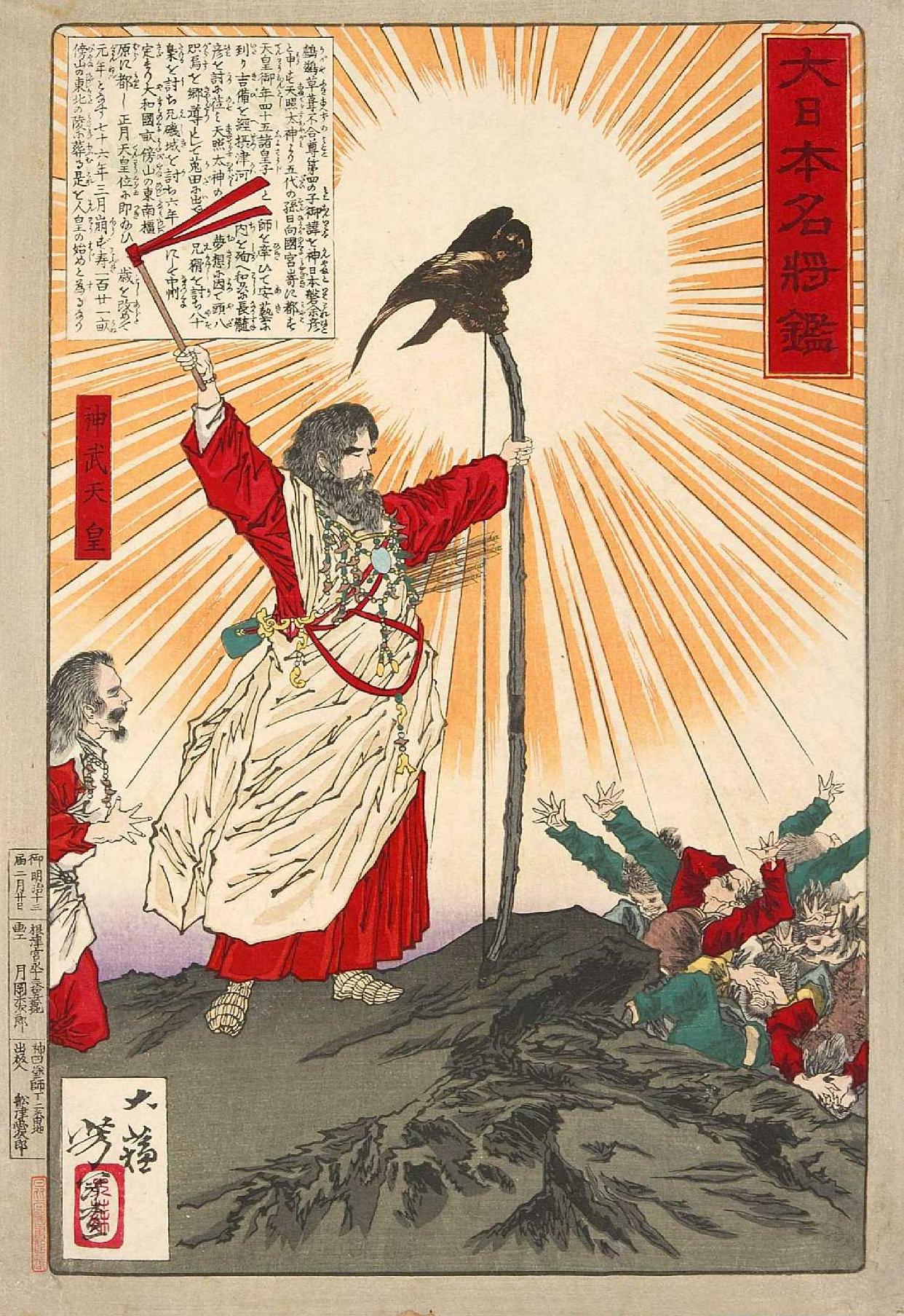 Depiction of a bearded Emperor Jimmu (Jinmu tennô) with his emblematic long bow and an accompanying three-legged crow. Medium: Woodblock print (nishiki-e). Dimensions: Vertical ôban; 37.4 x 25.1 cm (14 3/4 x 9 7/8 in.)